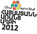 Let's do it Armenia logo